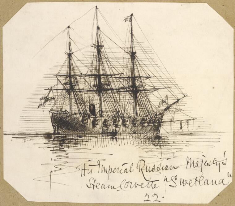 His Imperial Russin Majesty’s Steam Corvette "Svetlana" entered Port Phillip Bay